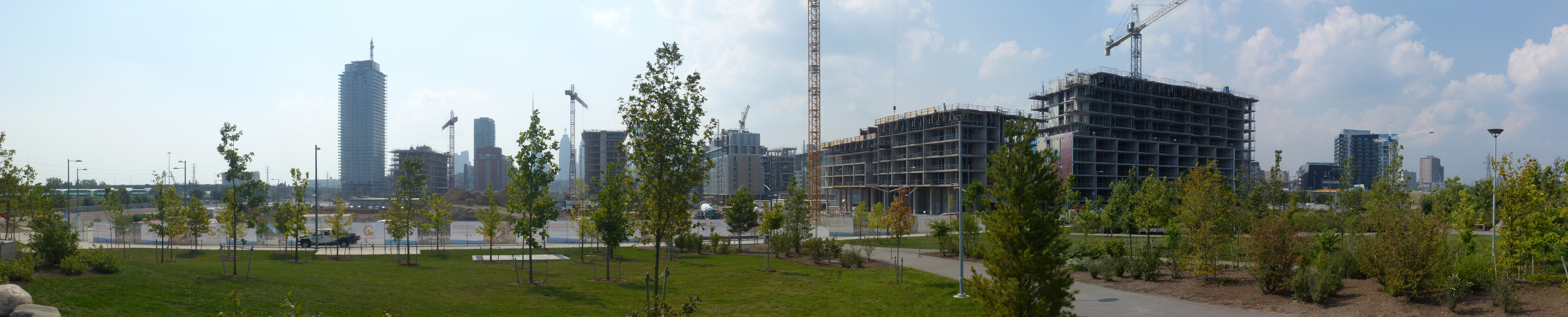 Strolling the West Don Lands.